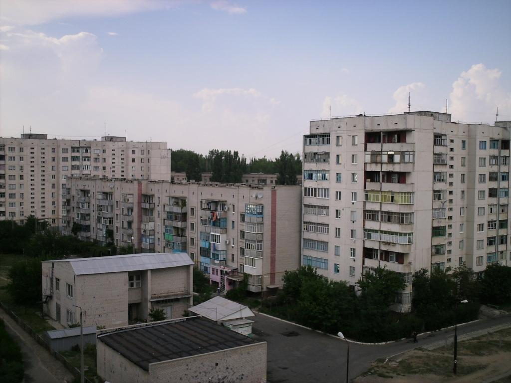 Skhidna (East) street in Oleshky